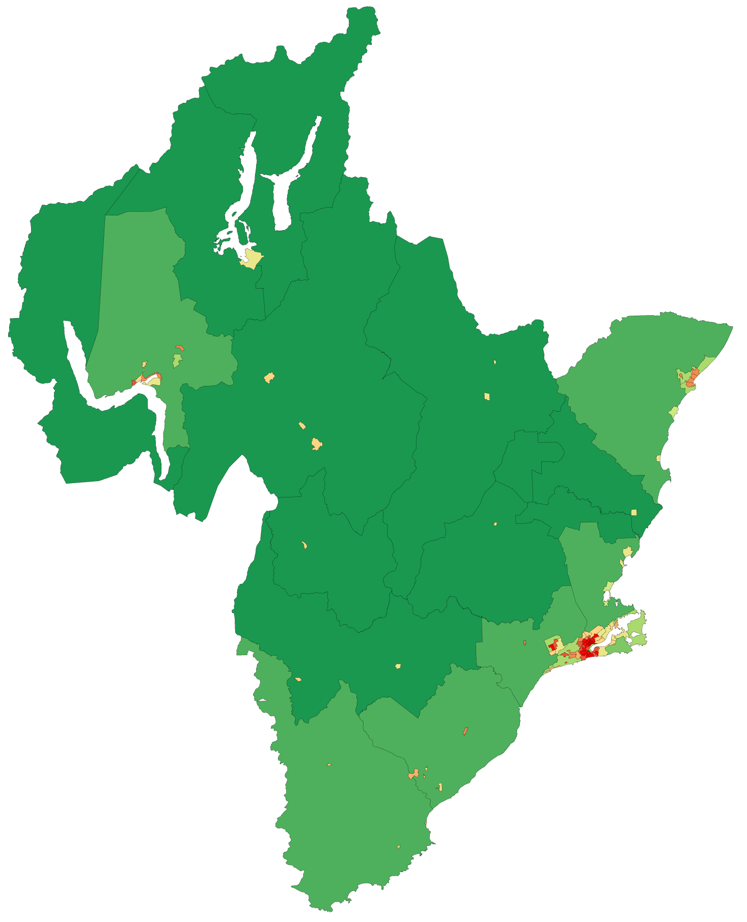 Map showing population density of a region of New Zealand (by Statistics NZ Area Unit) as of the 2006 census